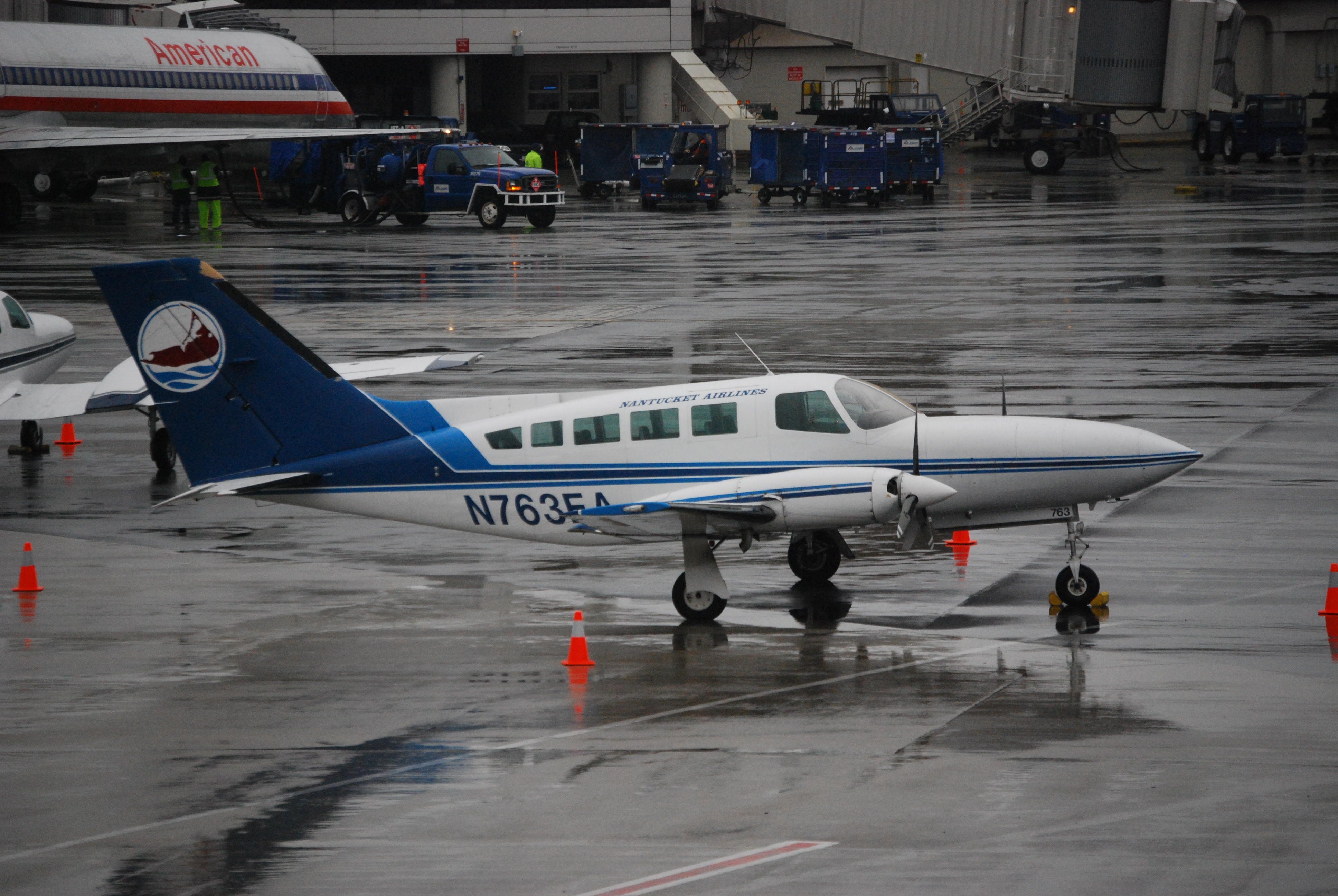 Nantucket Airlines Cessna 402 Registration: N763EA